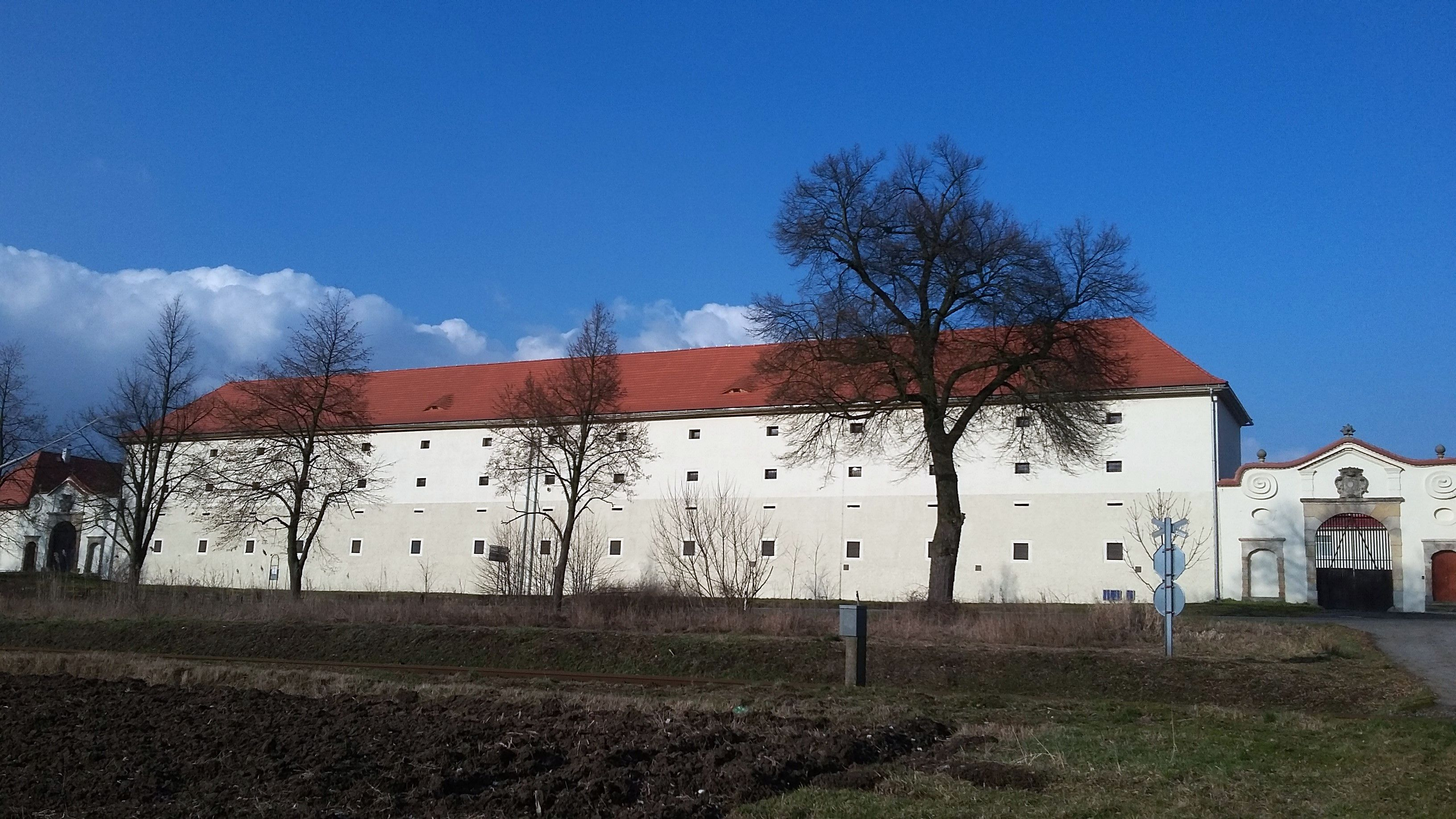 Baroque farm building from 18. century